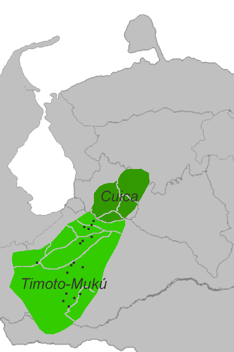 Timote-cuica languages: kuika dialects (dark green), timote-mukú (celar green)[Black spots are toponyms in muku-]. Source: P. Rivet (1927): "La famille linguistique Timote (Venezuela)", International Journal of American Linguistics, Vol. 4, No. 2/4 (Jan., 1927), pp. 137-167.